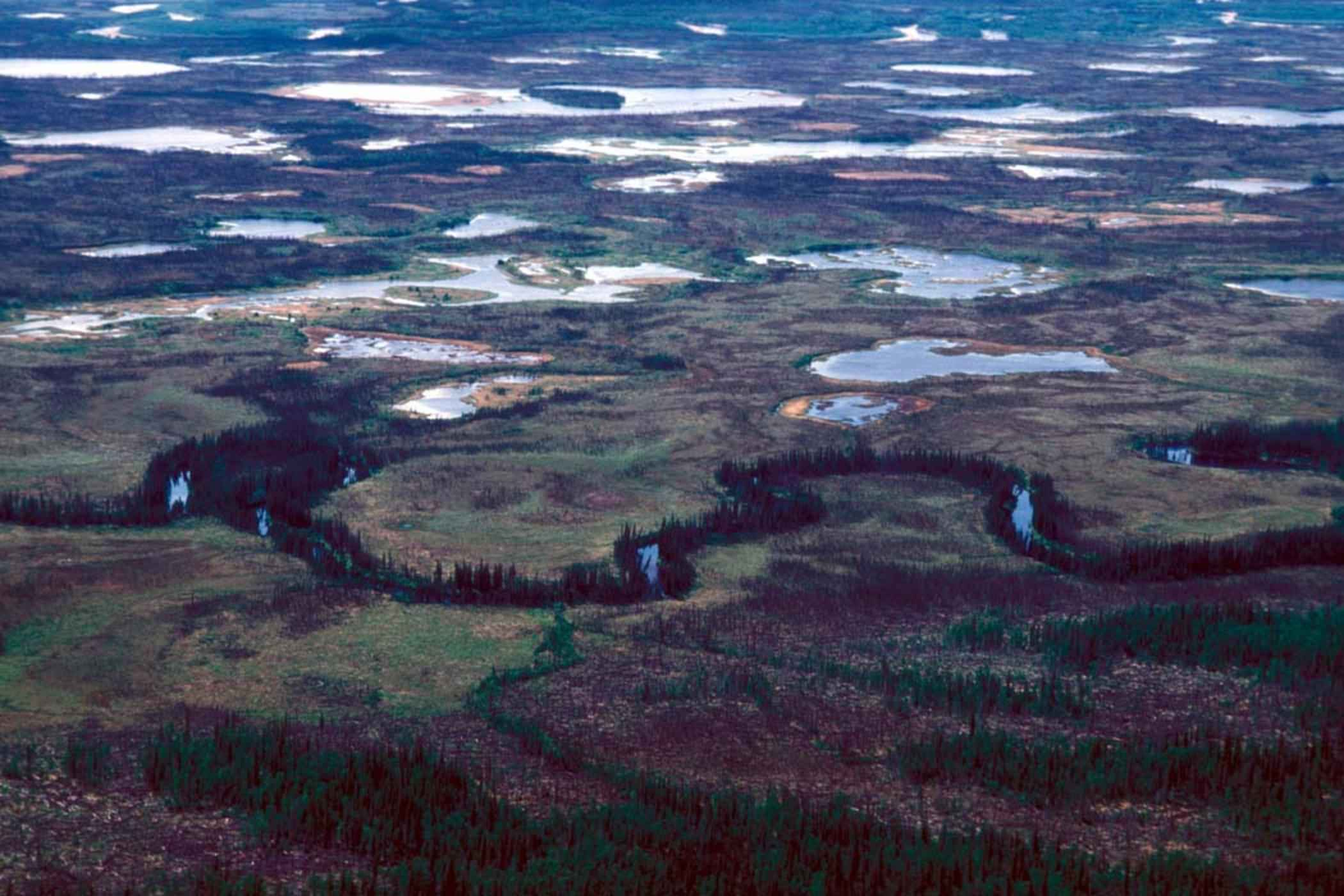 Image title: Treeless bogs interspersed with spruce Image from Public domain images website